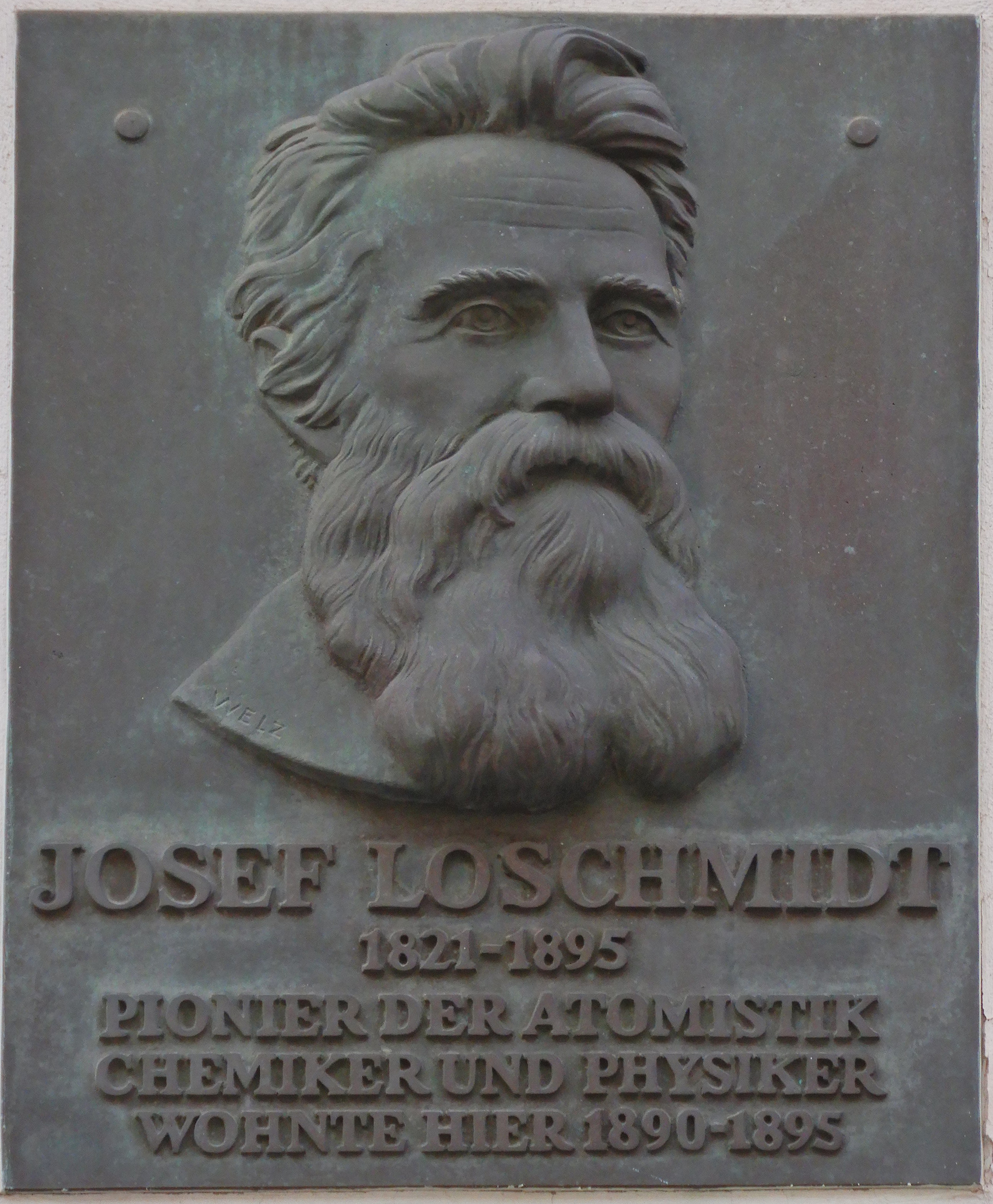 Portrait plaque of Johann Josef Loschmidt on the wall of a building in Vienna (Lacknergasse 79). Taken 2018-02-27 16:41:13 at GPS coordinates 48.227339, 16.333528 (per EXIF). Plaque at Google coordinates 48.227285, 16.333515 per Google Street View. This file is a copy of File:Wien18 Lacknergasse079 2018-02-27 GuentherZ GD Loschmidt 0683 02.jpg (originally 3,456 × 4,608 pixels) rectified with Gimp to remove the perspective distortion and cropped to the plaque edges, by User:Jorge_Stolfi. Please refer to the original file for the EXIF metadata. Note that, since the rectification was merely 2D, the salient parts of the portrait are slighly shifted upwards relative to the plaque's background plane.